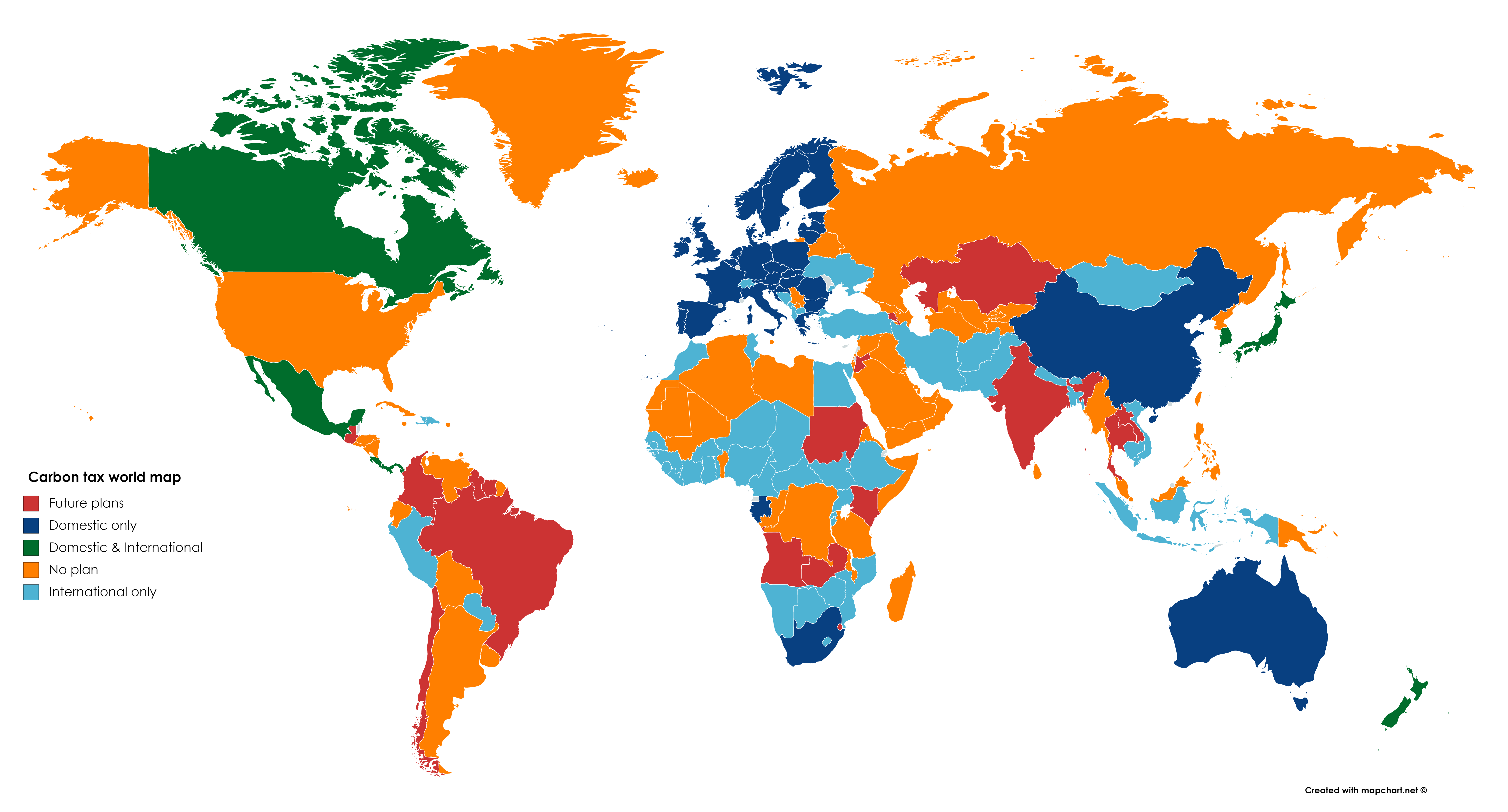 A world map showing the levels of carbon taxing by country